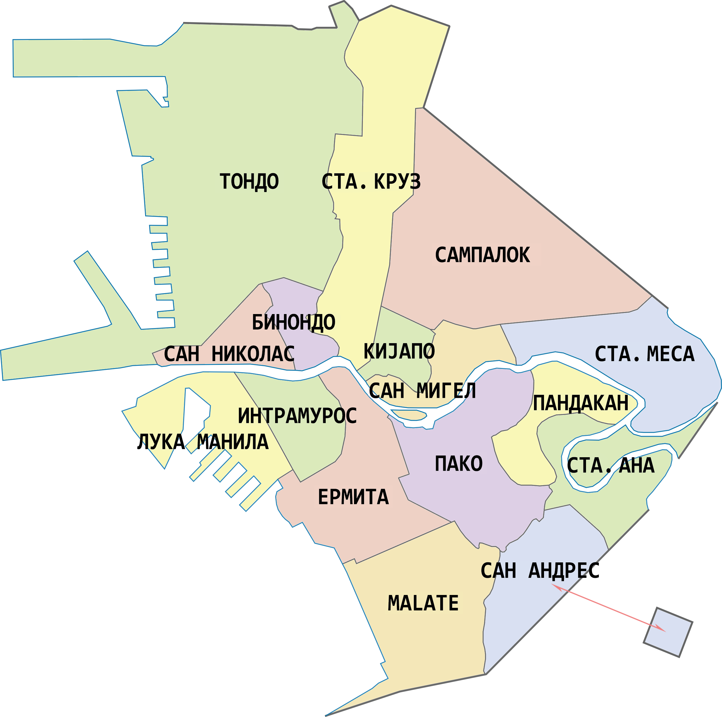 Map of Manila with districts (translated into Serbian)